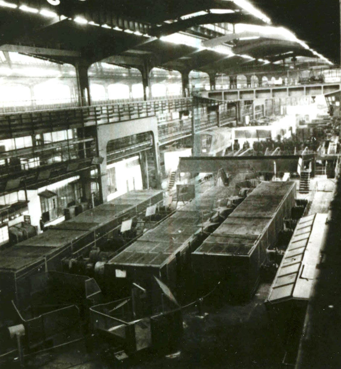 Hunedoara metallurgical plant.